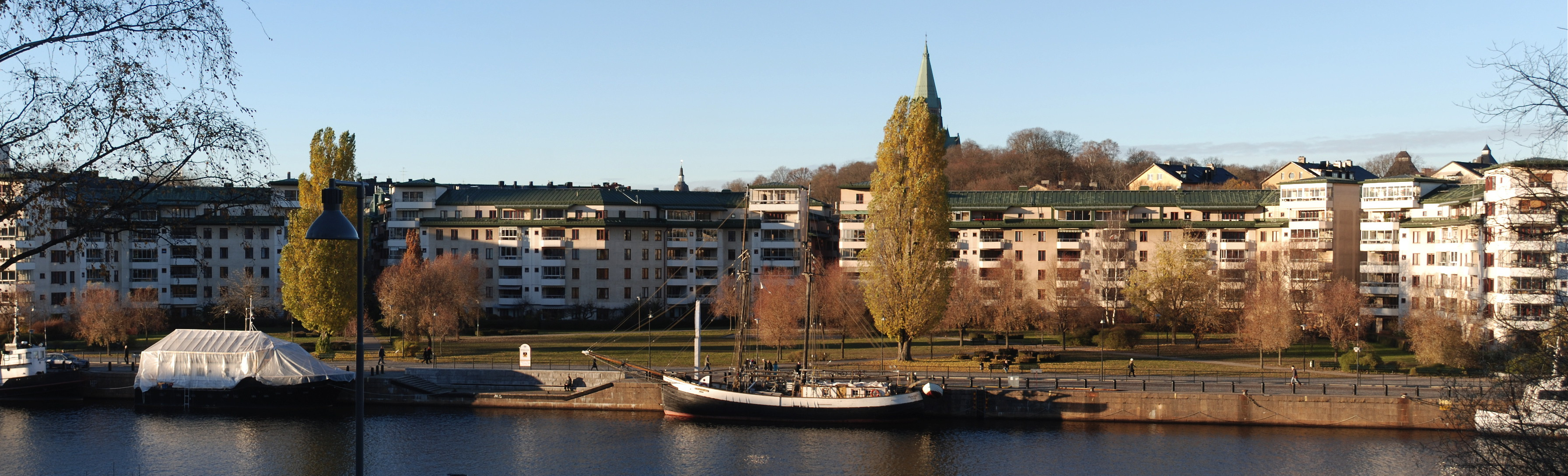 Vintertullsparken. Up to the early 19th century it was a city toll here during the winter ("tull" means "toll" and vinter means "winter" and "parken" "the park").